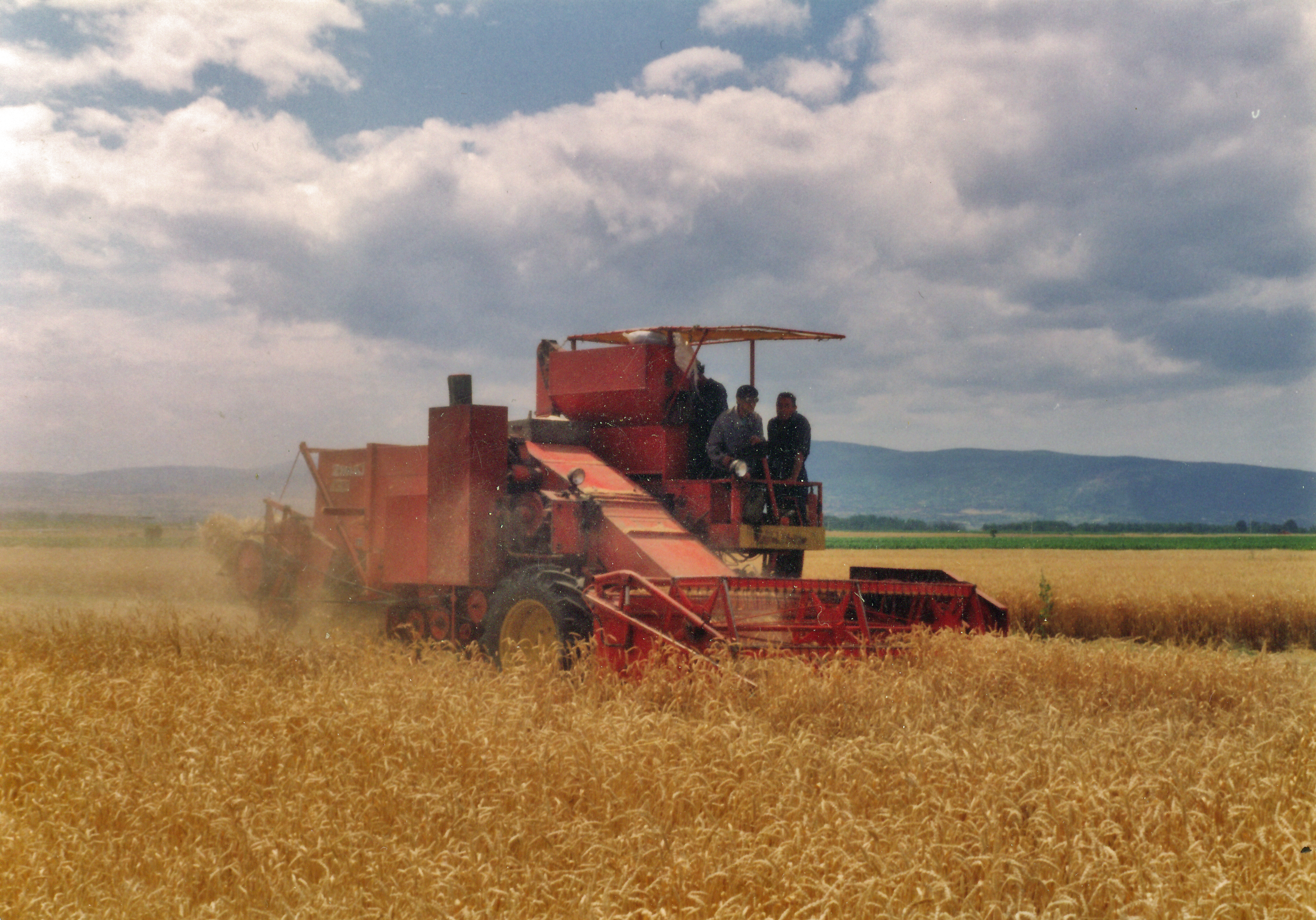 Combine harvester "Zmaj" during the harvest in the mid-90s in the village of Komren near Nis